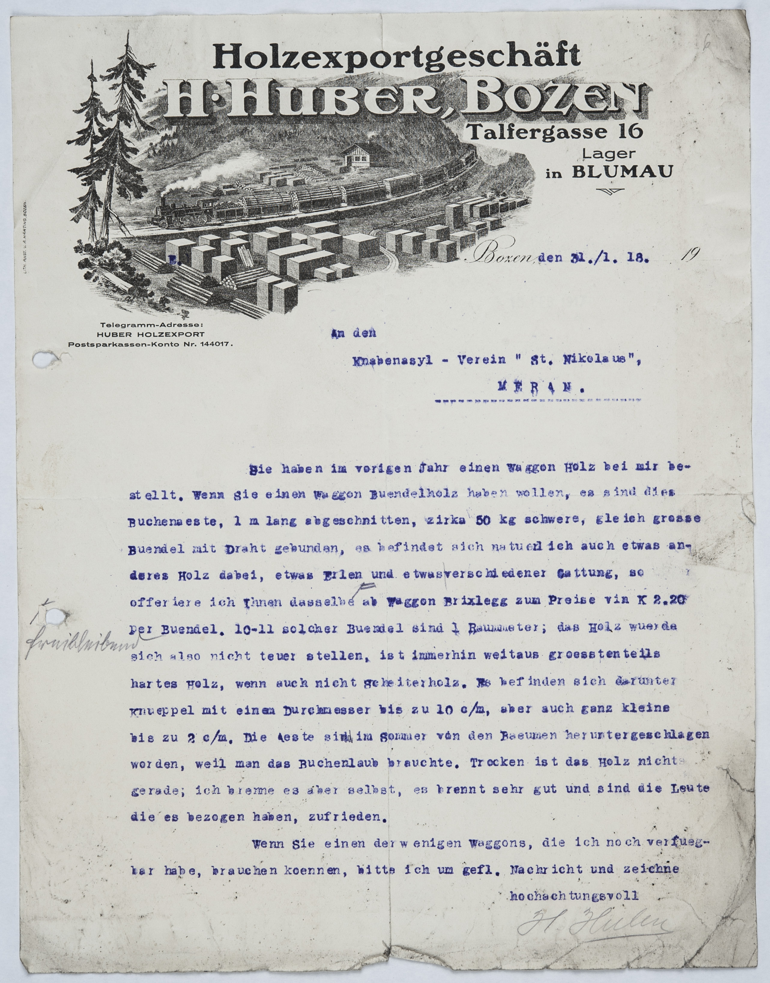 Letterhead of the Wood Industry Huber of Bozen-Bolzano, 1918